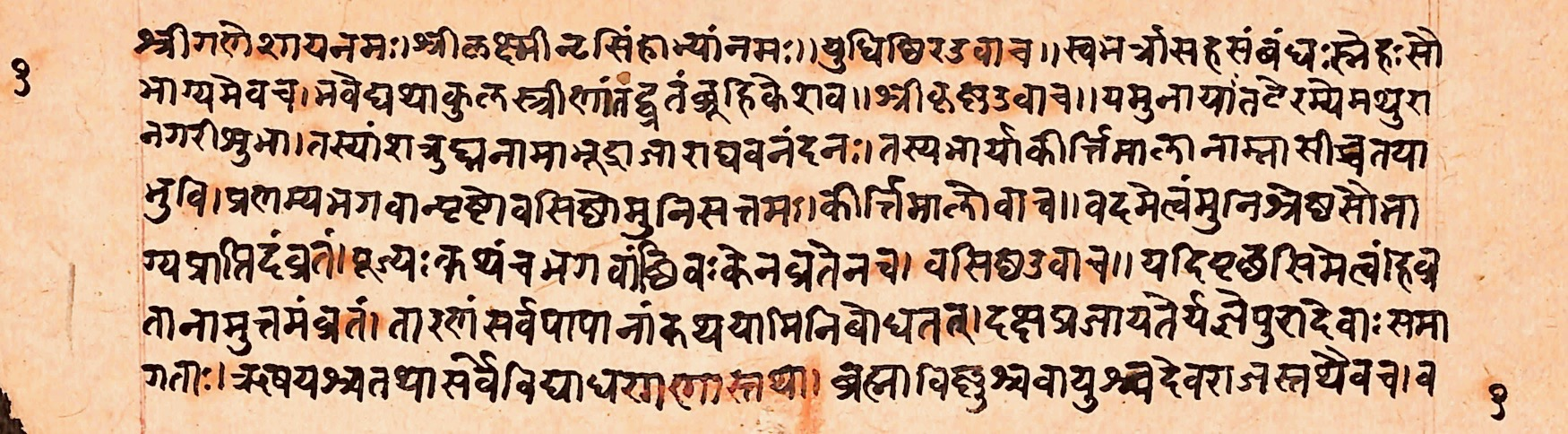 This is a page from the Naradiya Purana manuscript. Language: Sanskrit Script: Devenagari This manuscript was acquired in the 19th-century, and was produced in or before the acquisition. The photo above is of a 2D artwork from the text that was itself authored more than 500 years ago. Therefore Wikimedia Commons PD-Art licensing guidelines apply. Any rights I have as a photographer is herewith donated to wikimedia commons under CC 4.0 license.